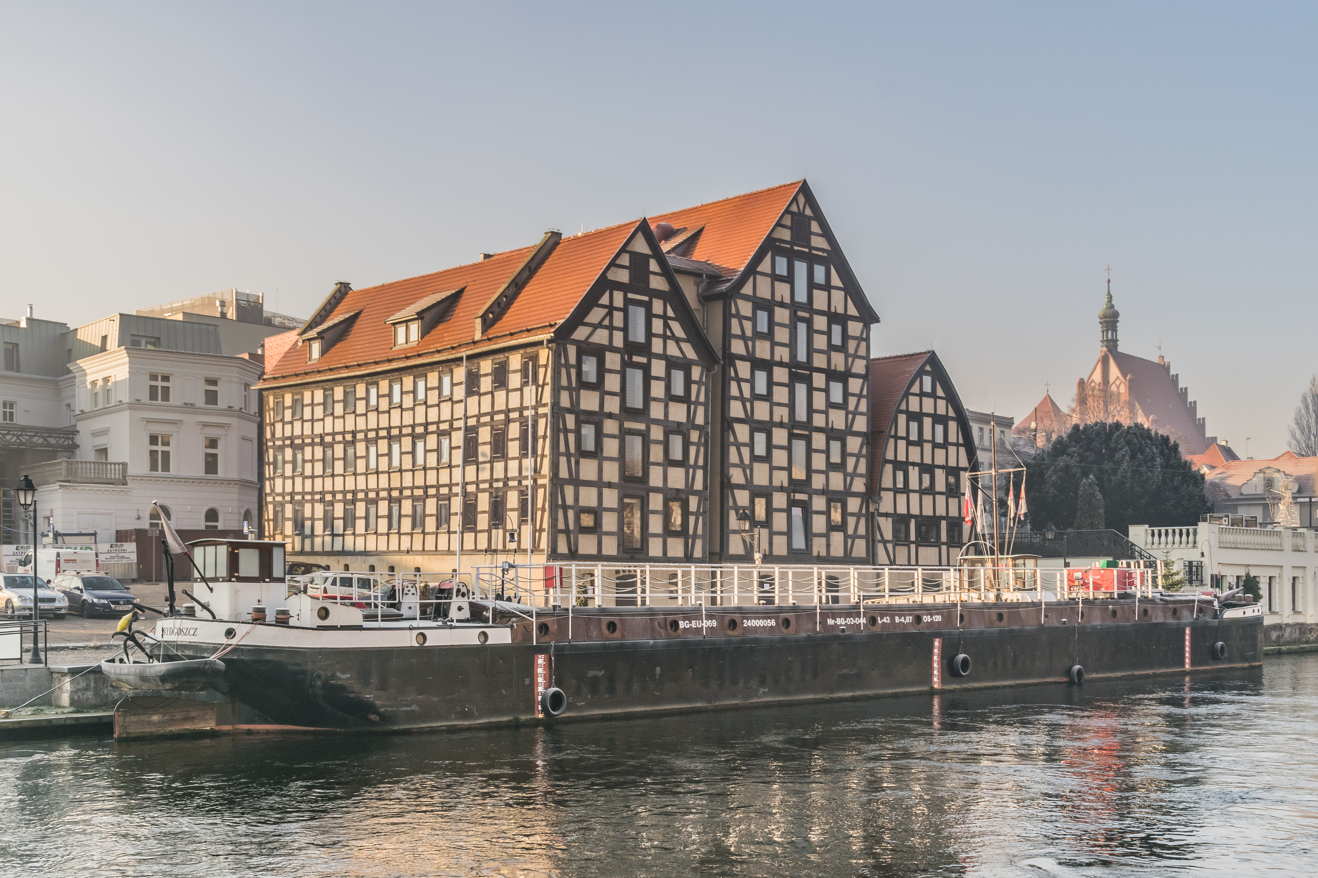 Granaries at 7-11 Grodzka Street in Bydgoszcz, Kuyavian-Pomeranian Voivodeship, Poland 01.1960 and 12.05.1993.